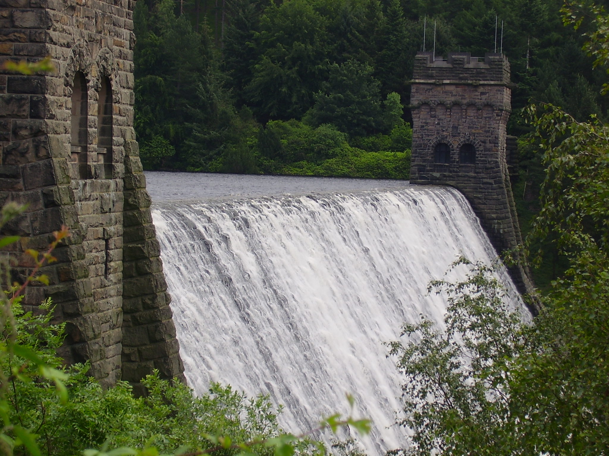 Derwent Dam overflow on 11th July 2007